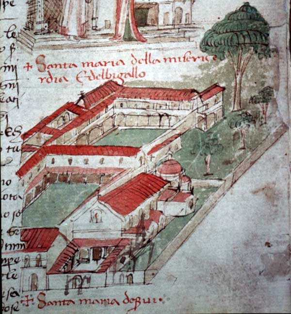 Depiction of Santa Maria dei Servi e del Bigallo (Santissima Annunziata) from the Codice Rustici (illuminated manuscript)